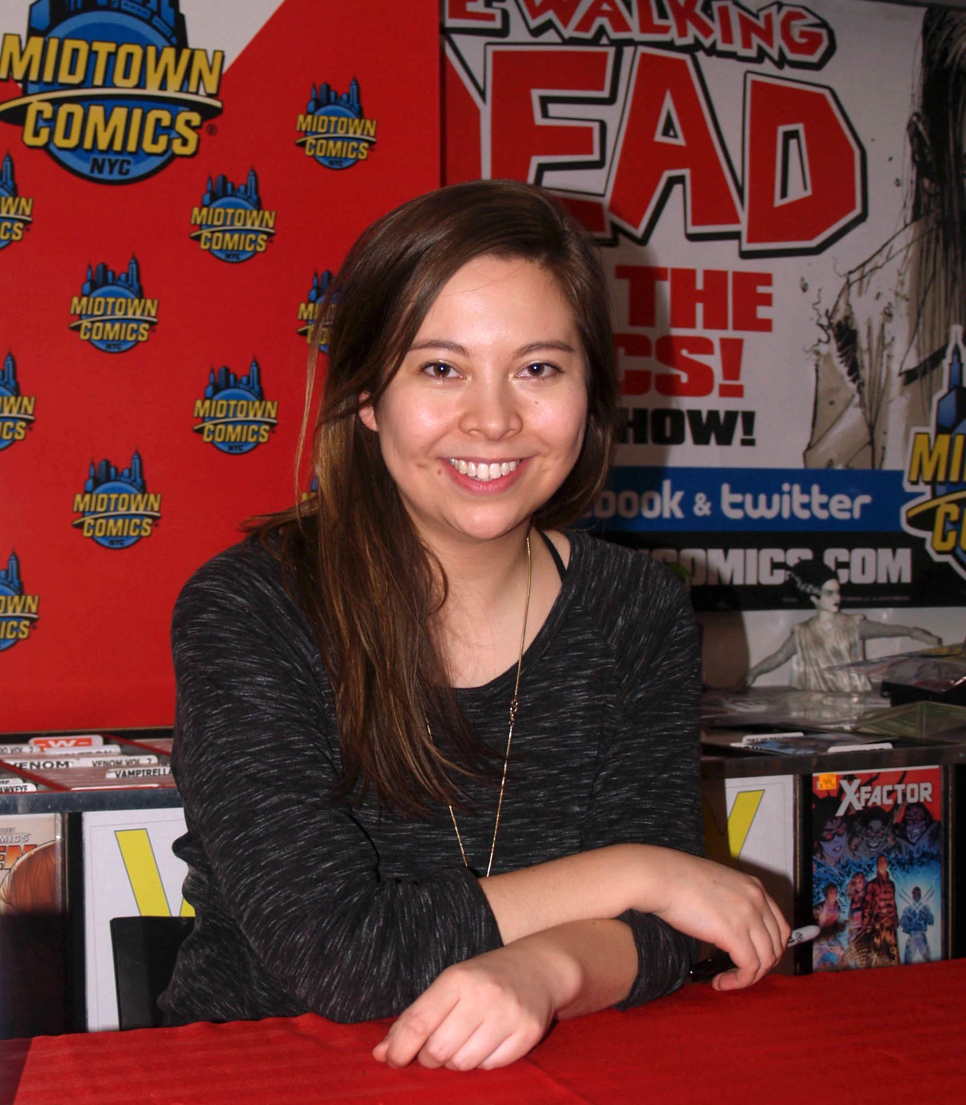 Canadian comic book artist Fiona Staples at an April 4, 2014 book signing at Midtown Comics Downtown in Manhattan. This photo was created by Luigi Novi. It is not in the public domain, and use of this file outside of the licensing terms is a copyright violation.